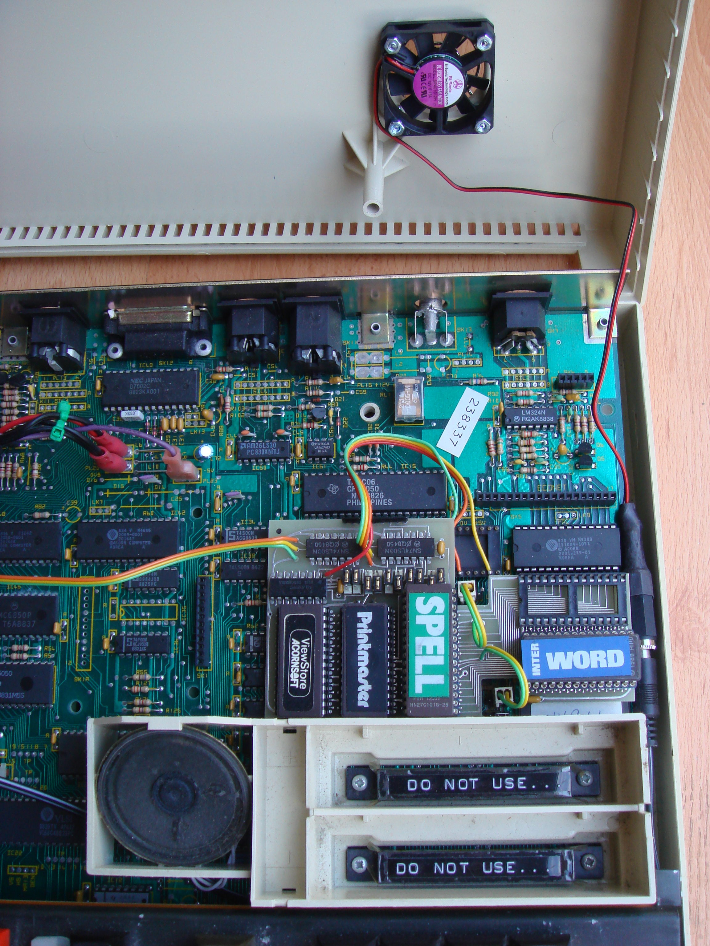 Internal picture of BBC Master 128 showing additional romboard (Vine Micros RomBoard 4), installed ROMs and cooling fan. The fan has been retrofitted by the owner.